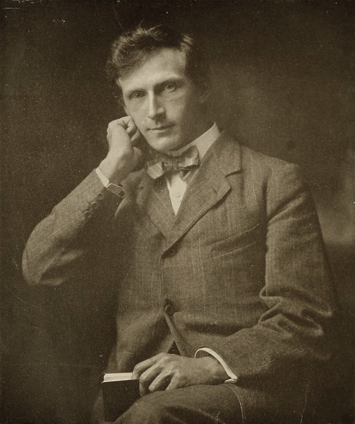 Sitting portrait of the American explorer Anthony Fiala